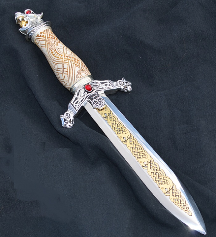 Dagger by Sid Birt